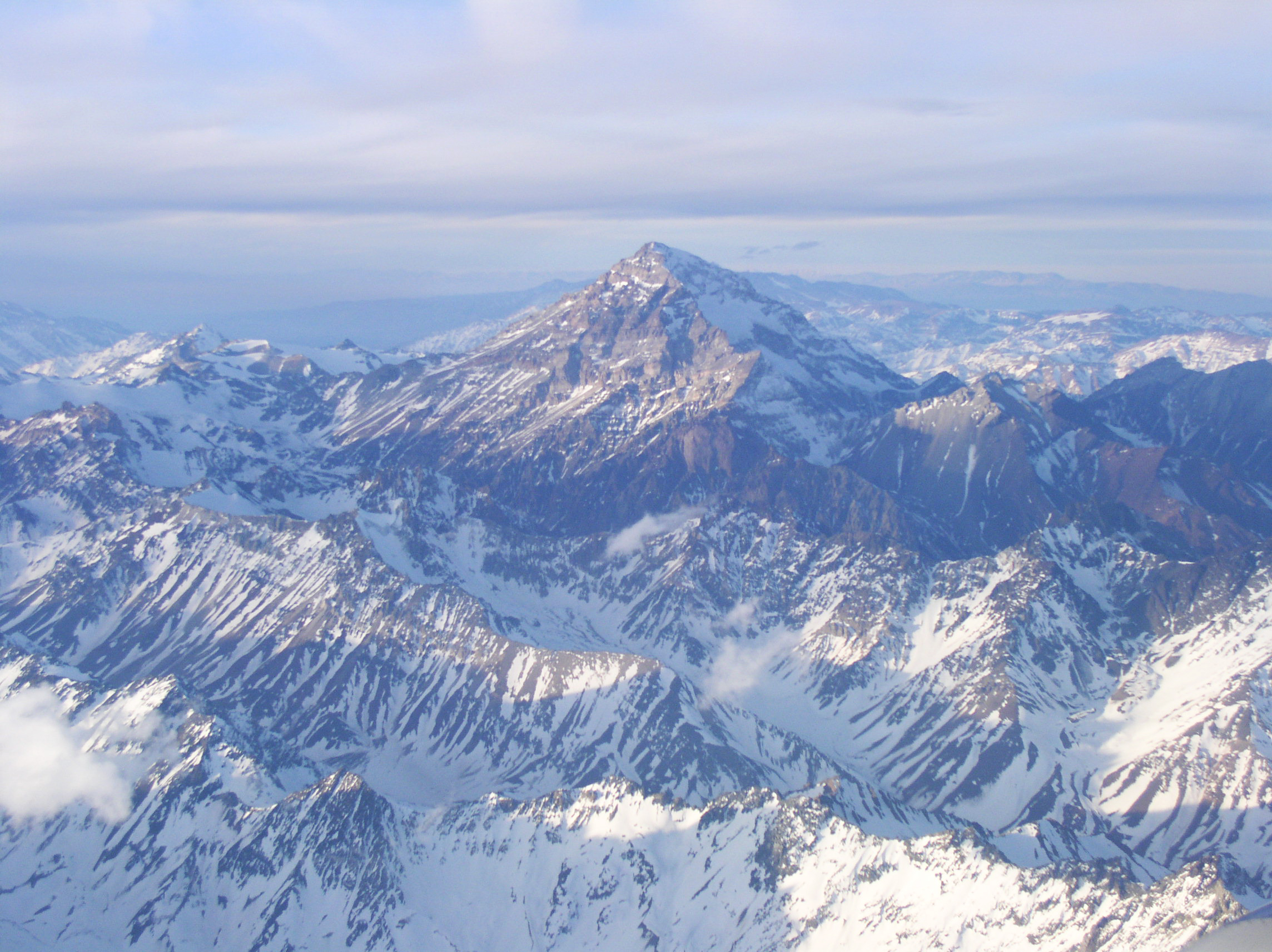 Aerial view of Aconcagua